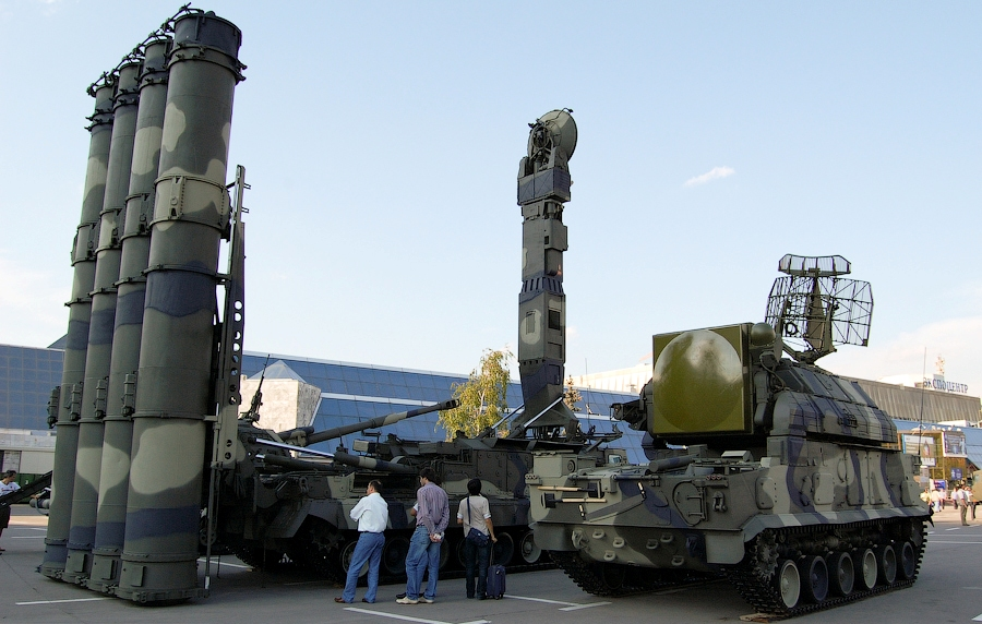 A Russian Tor-M1 and S-300V SAM in 2008.